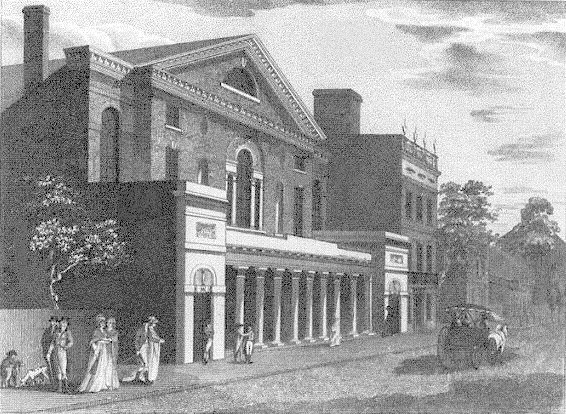 Original Chestnut Street Theatre, Philadelphia, PA